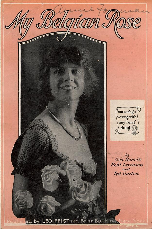 Cover image for the sheet music to "My Belgian Rose."